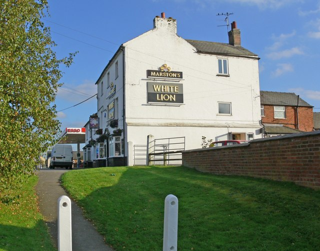 White Lion in North Kilworth A public house along Station Road.